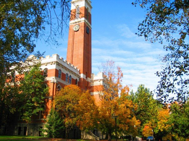 Kirkland Hall